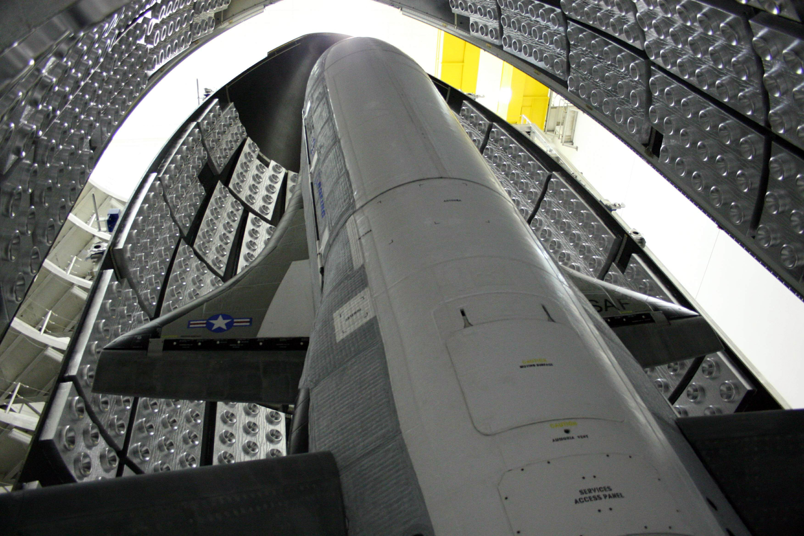 The X-37B Orbital Test Vehicle in the encapsulation cell at the Astrotech facility April 2010, in Titusville, Florida. Air Force officials are scheduled to launch the X-37B April 21, 2010, at Cape Canaveral Air Station, Florida. The X-37B is the U.S.'s newest and most advanced unmanned re-entry spacecraft.